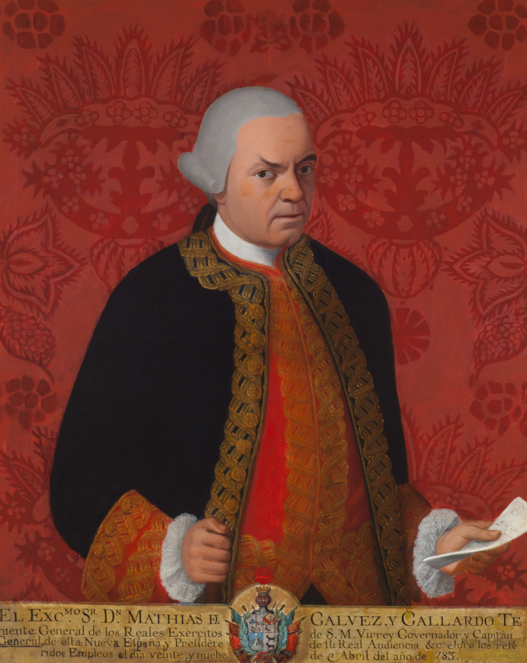 Portrait of the viceroy of New Spain, Matías de Gálvez y Gallardo, also viceroy of New Spain.